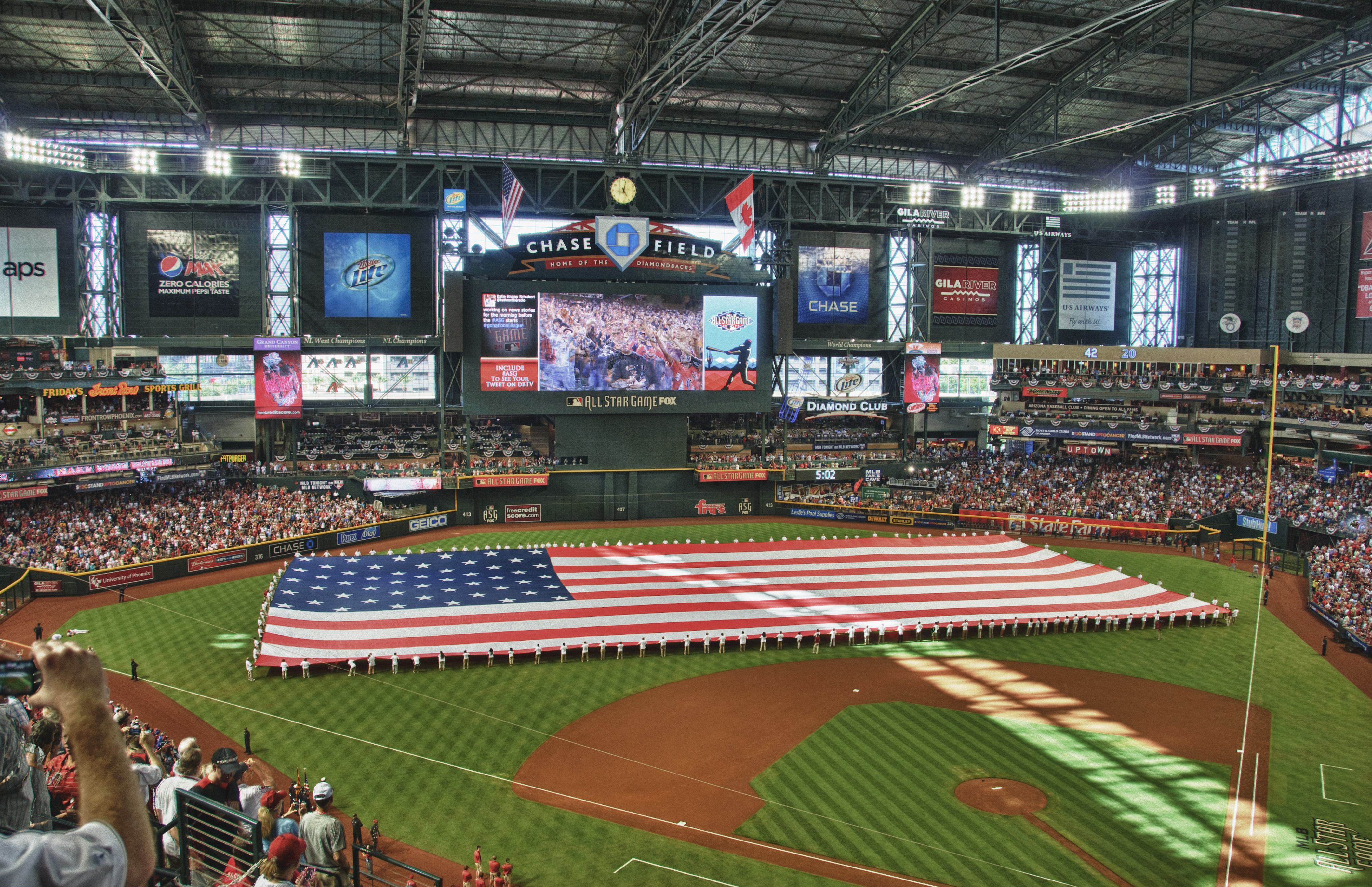 2011 Major League Baseball All-Star Game